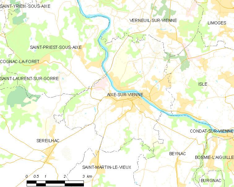 Map of French municipality Aixe-sur-Vienne